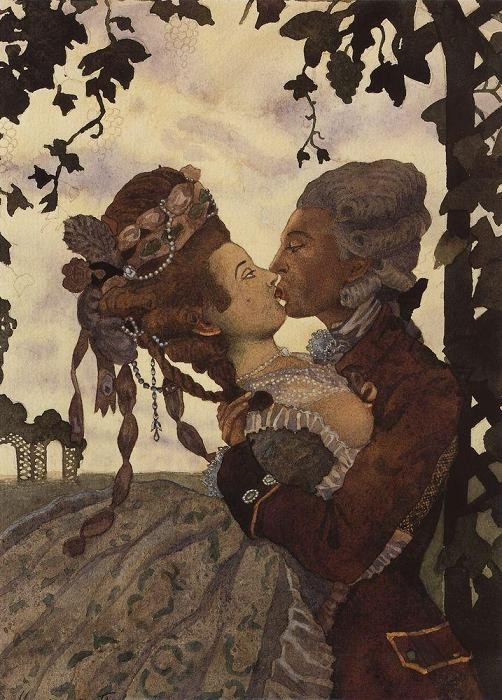 in a private collection